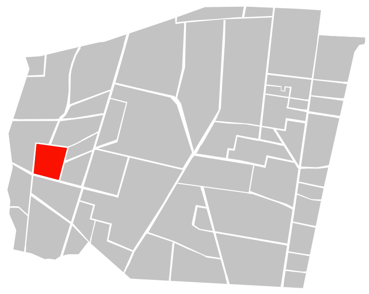 Map of Delegación Benito Juárez in Mexico City, with Colonia San Juan highlighted in red